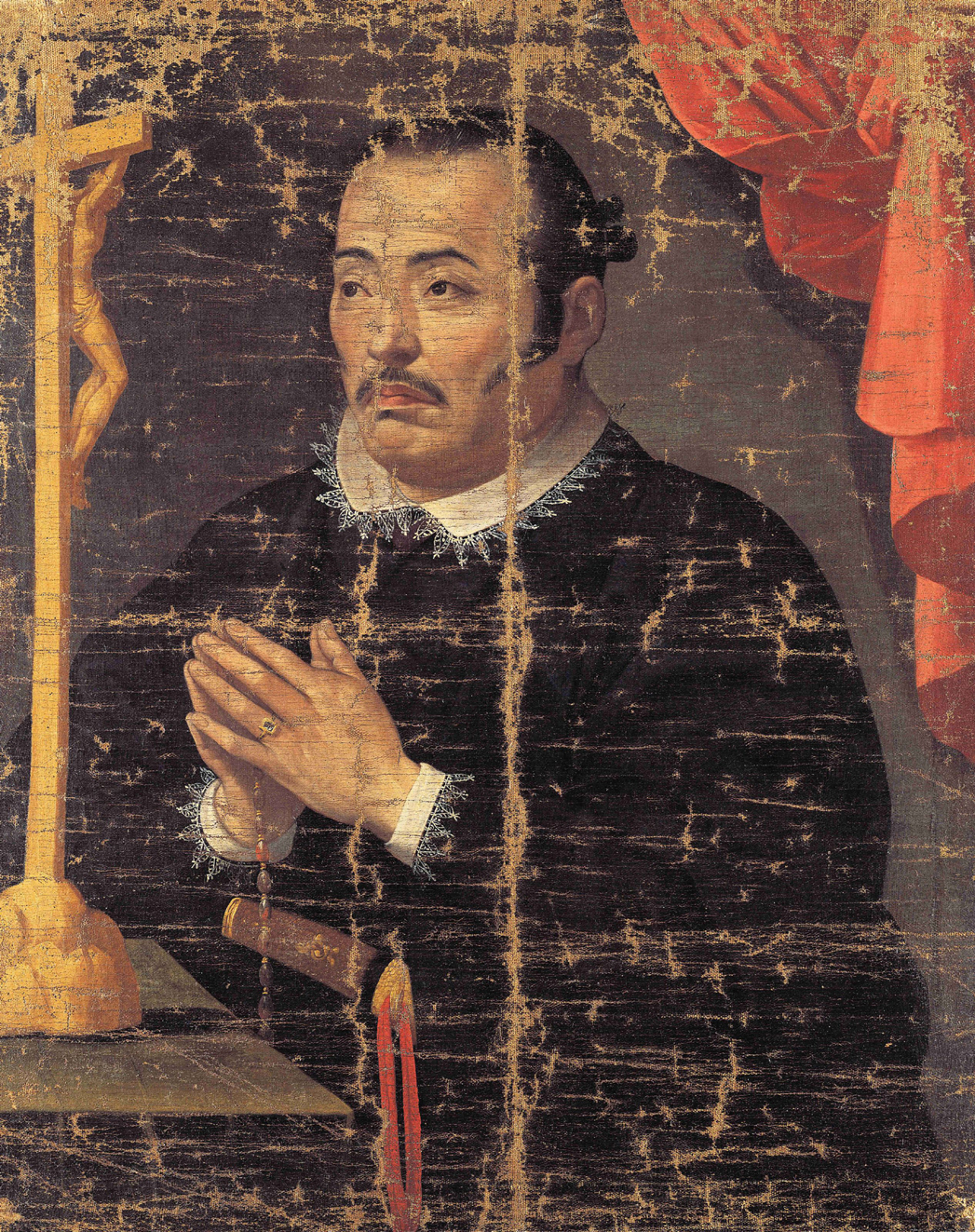 Portrait of Hasekura Tsunenaga (1571-1622)